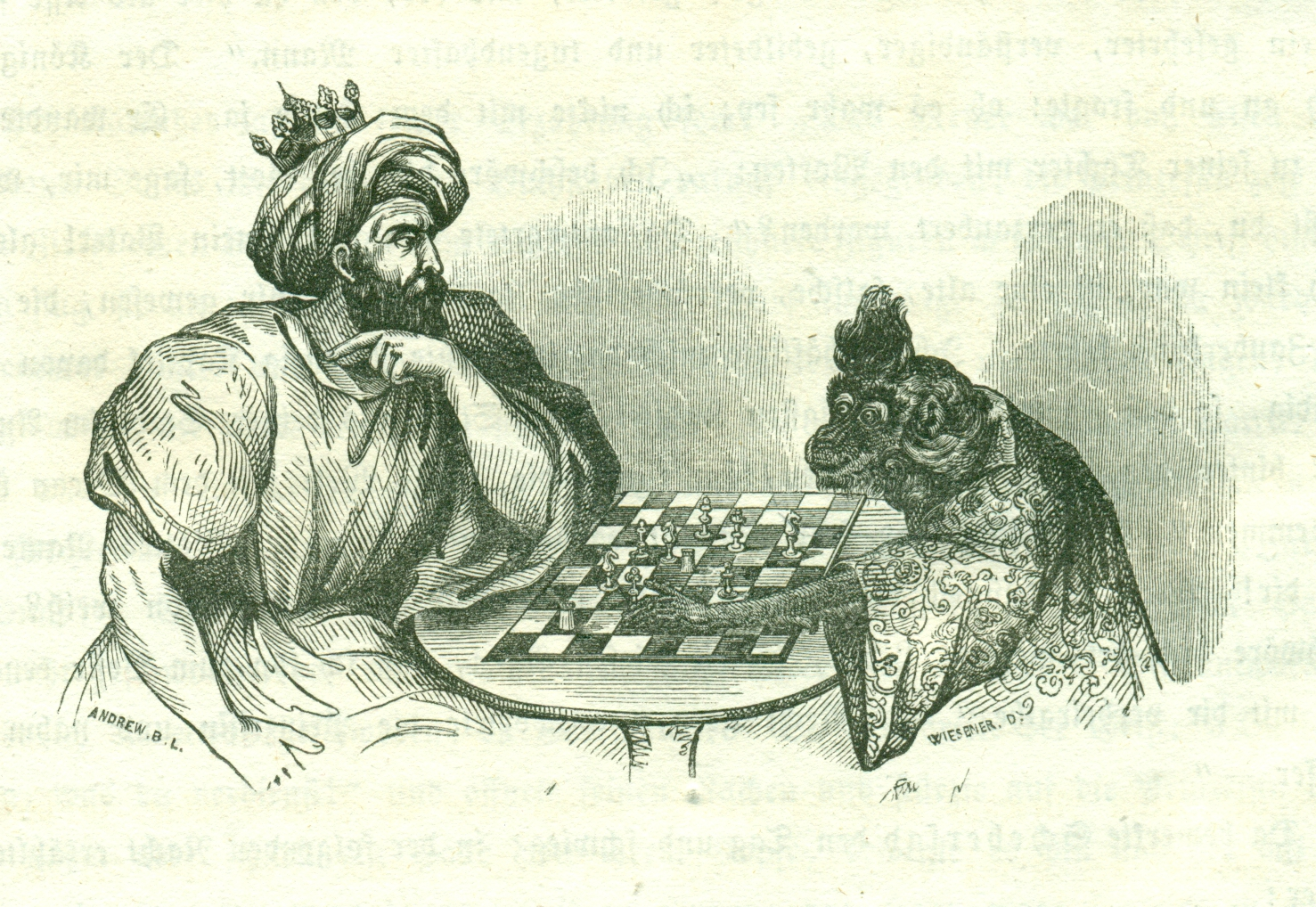 Woodcut